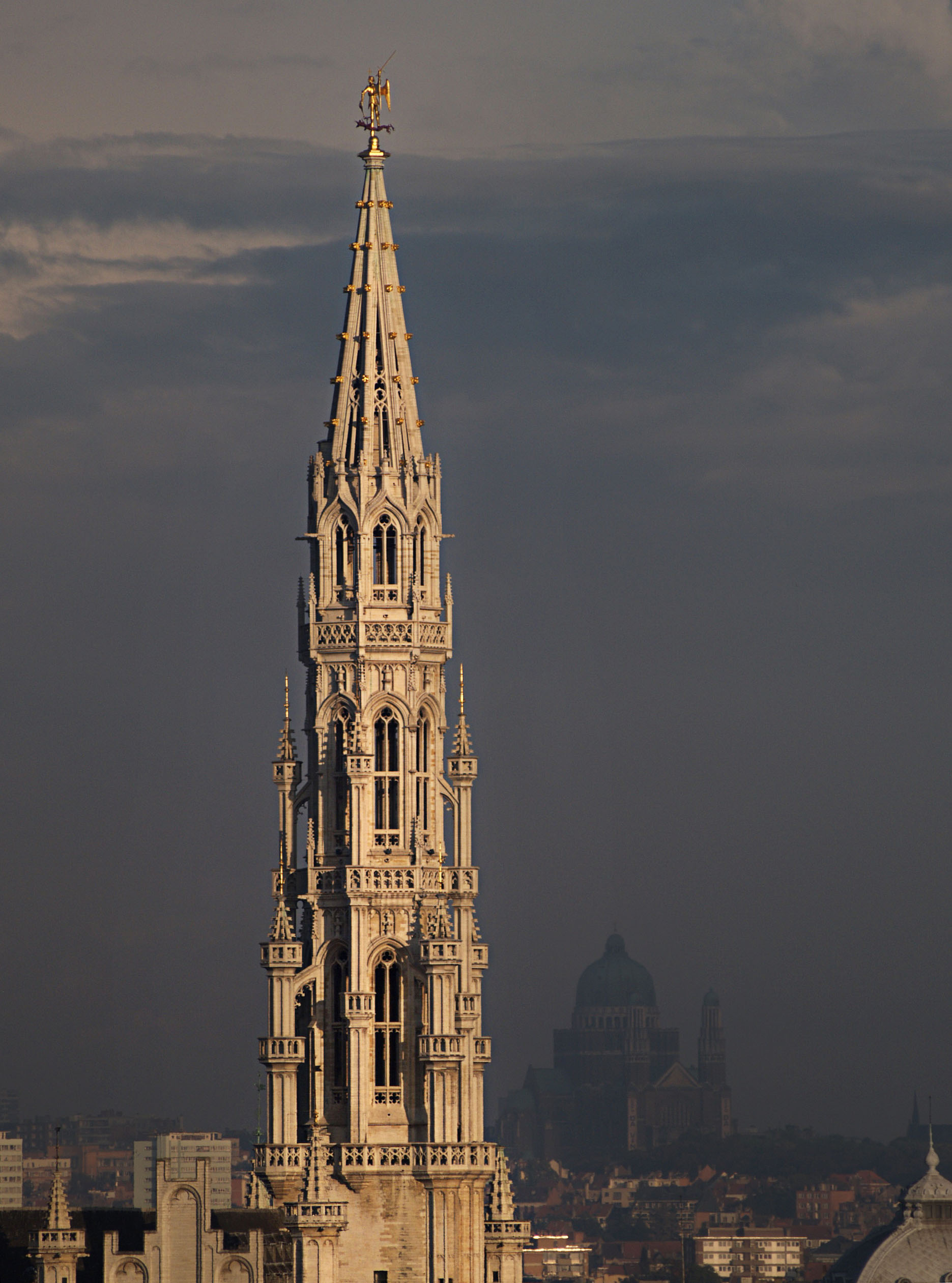 Town hall, Brussels